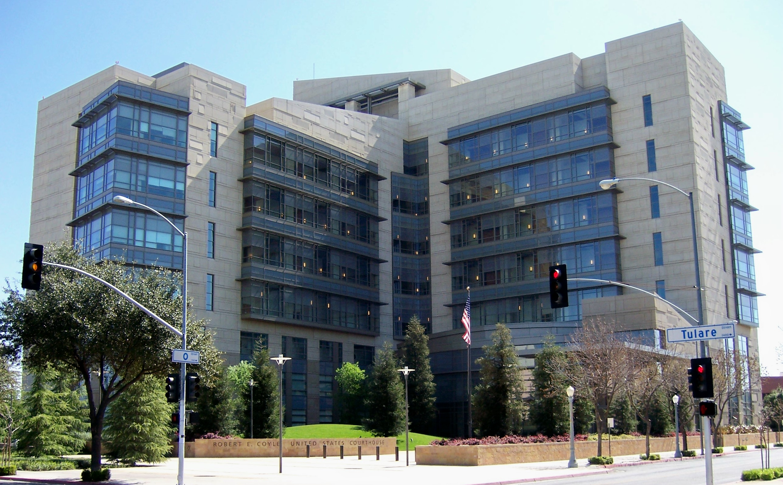 Photo of the Robert E. Coyle United States Courthouse in Fresno, California.